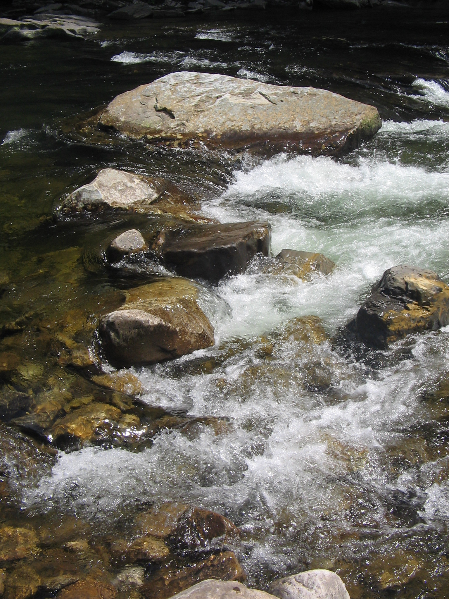 Whitewater on Loyalsock Creek in Worlds End State Park, near Forksville, Sullivan County, Pennsylvania, USA